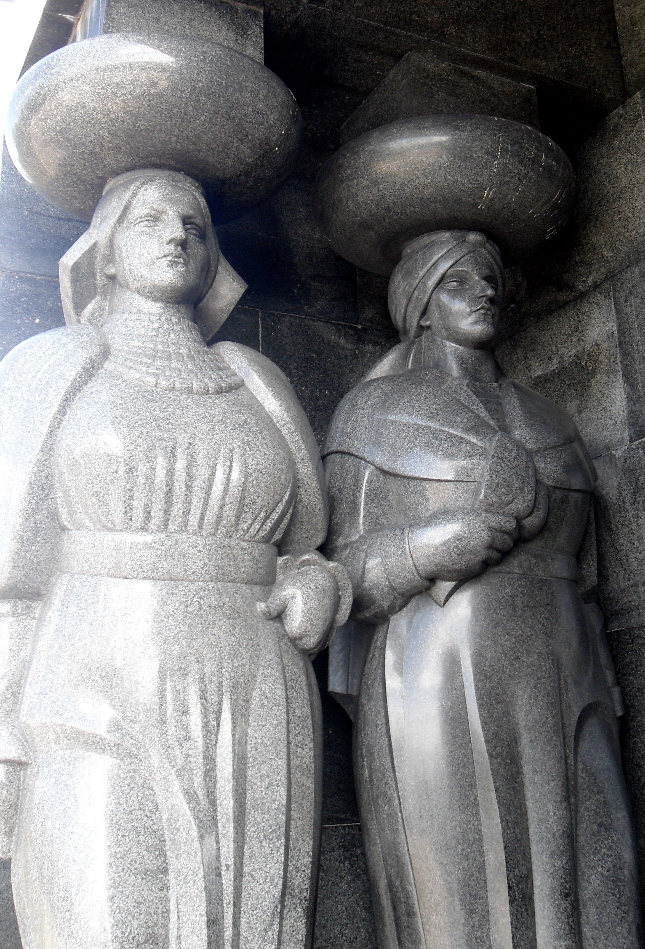 The Monument to the Unknown Hero (Serbian: Споменик Незнаном јунаку / Spomenik Neznanom junaku) is located atop Mt. Avala in Serbia, south-east of the capital, Belgrade, and was designed by the Croatian-Yugoslav sculptor Ivan Meštrović.